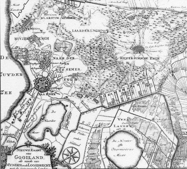 historische kaart van het Gooi wegens ouderdom PD Because this is an old map, the north is actually on the left side of the image.